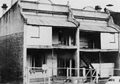 Formerly occupied by the Queensland Metropolitan Traffic Board until 1893, then leased by the newly established Queensland Stock Institute until relocation to Normanby in 1899.